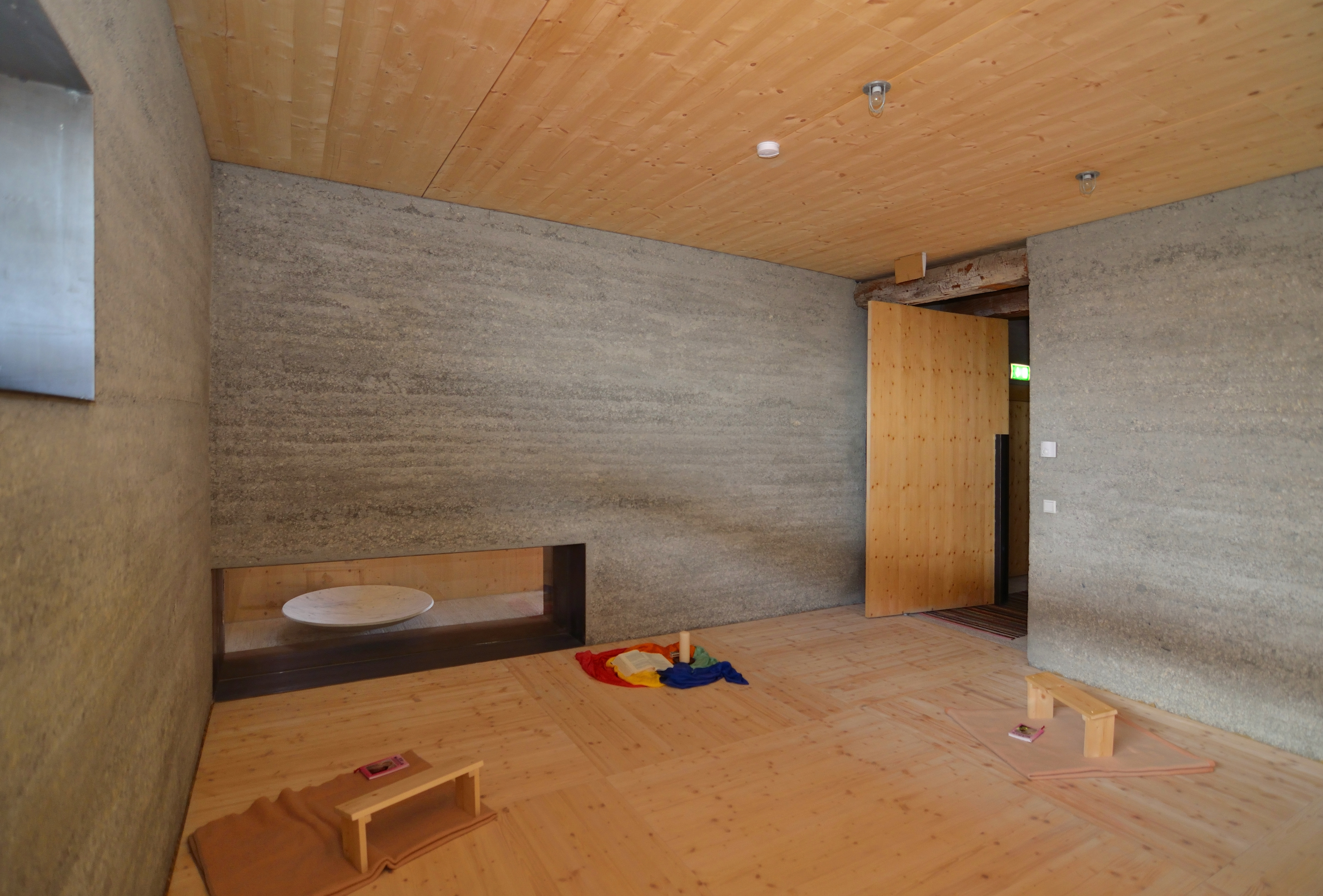 Geistliches Zentrum Embach (Spiritual center Embach), Raum der Stille (Room of Silence, a meditation and prayer room), former barn & stable of the rectory in Embach, municipality Lend, Salzburg.